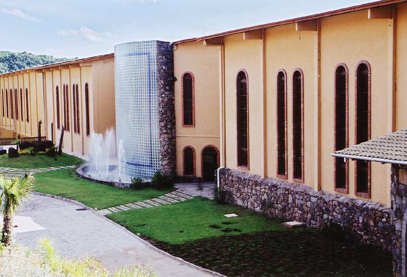 Headquarters of Winery Casa Valduga, in the Valley of the Vinhedos in Bento Goncalves, Rio Grande do Sul Casa Valduga's Vineyard head-office